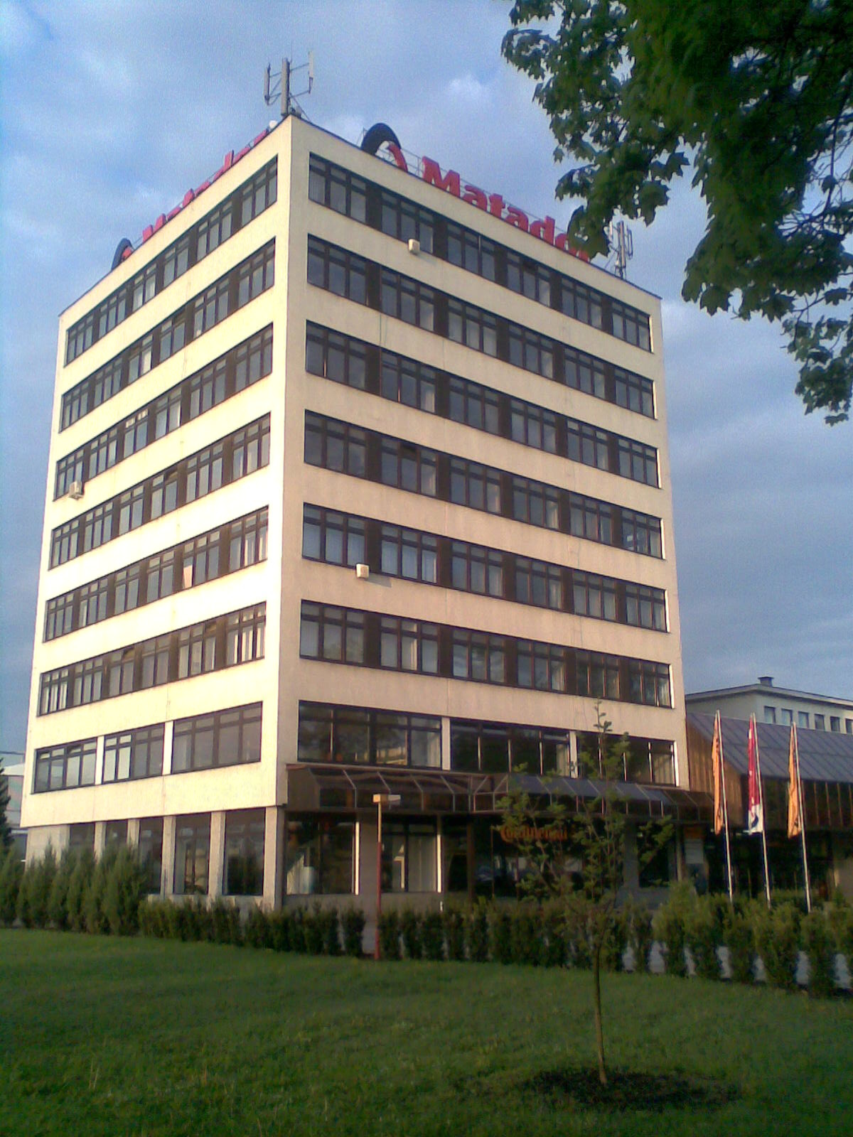 The building at the entrance to the factory Continental Matador, Púchov, Slovakia.